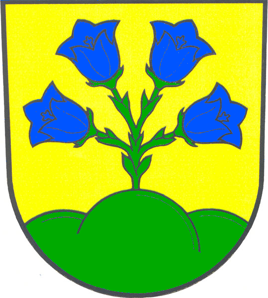 Municipal coat of arms of Janová village, Vsetín District, Czech Republic.